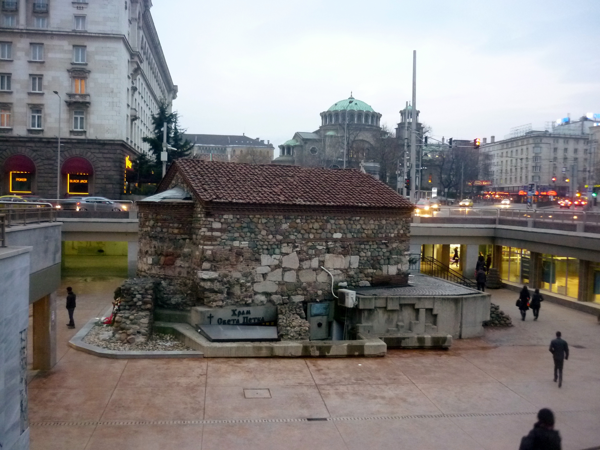 Buildings of ancient Serdica in Sofia (Sveta Petka in the middle of todays central Metro-station)